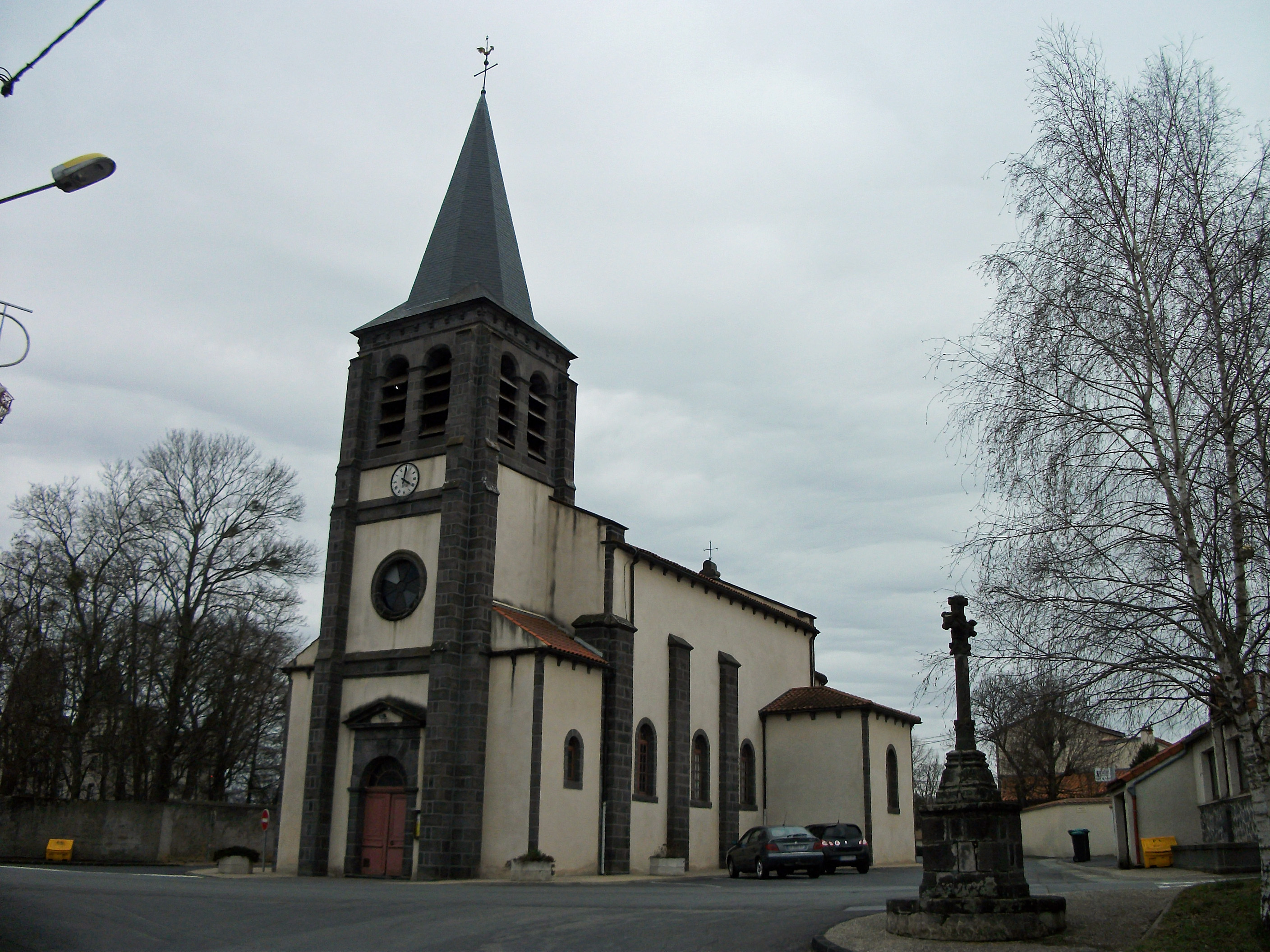 Church of Pessat-Villeneuve [10149]